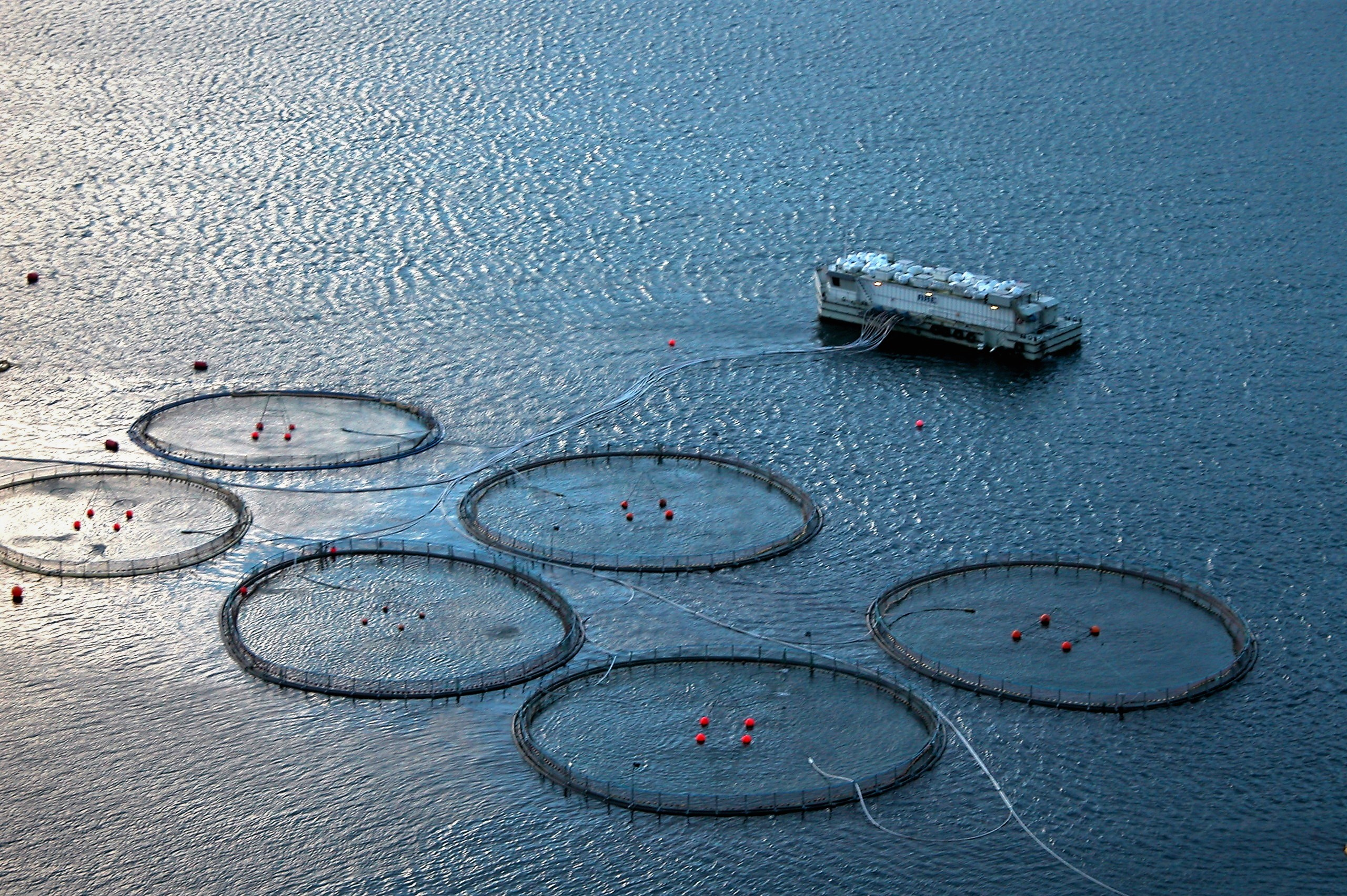 Faroese fishfarm, Vestmanna